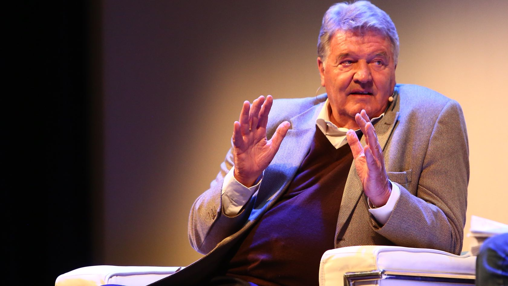 John Benjamin Toshack Elkarrizketatzailea/Entravistador: Ander Izagirre Korner 2018/2/22 Antzoki Zaharra /Teatro Principal Argakiak/Fotos: Real Sociedad